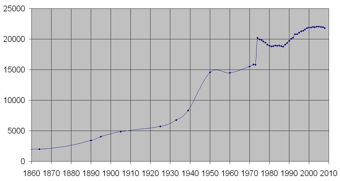 Development of the population of Soltau from 1860 to 2008